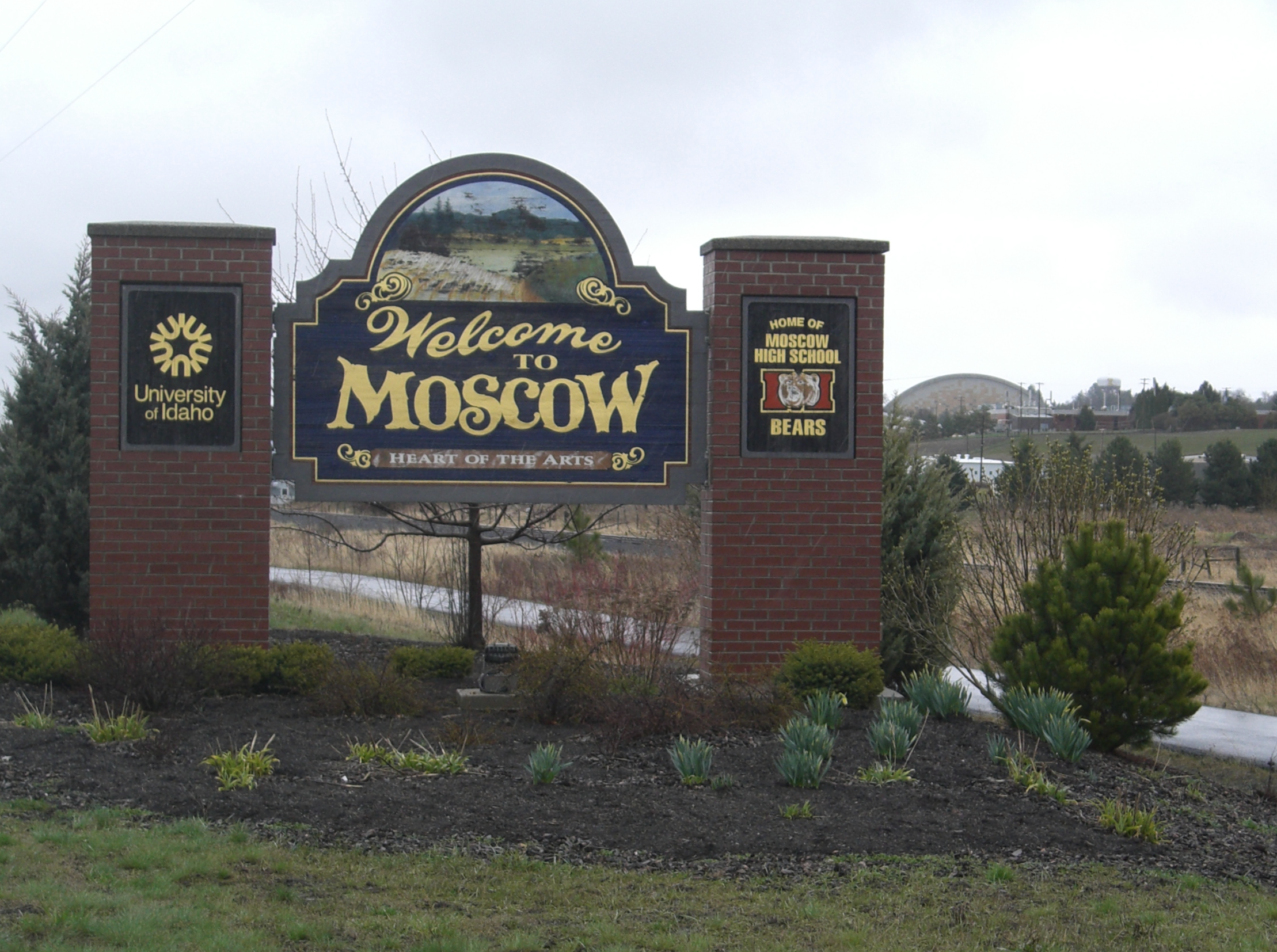 Welcome to Moscow, Idaho